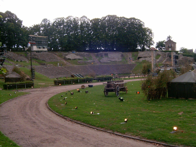 Romeins theater in Autun